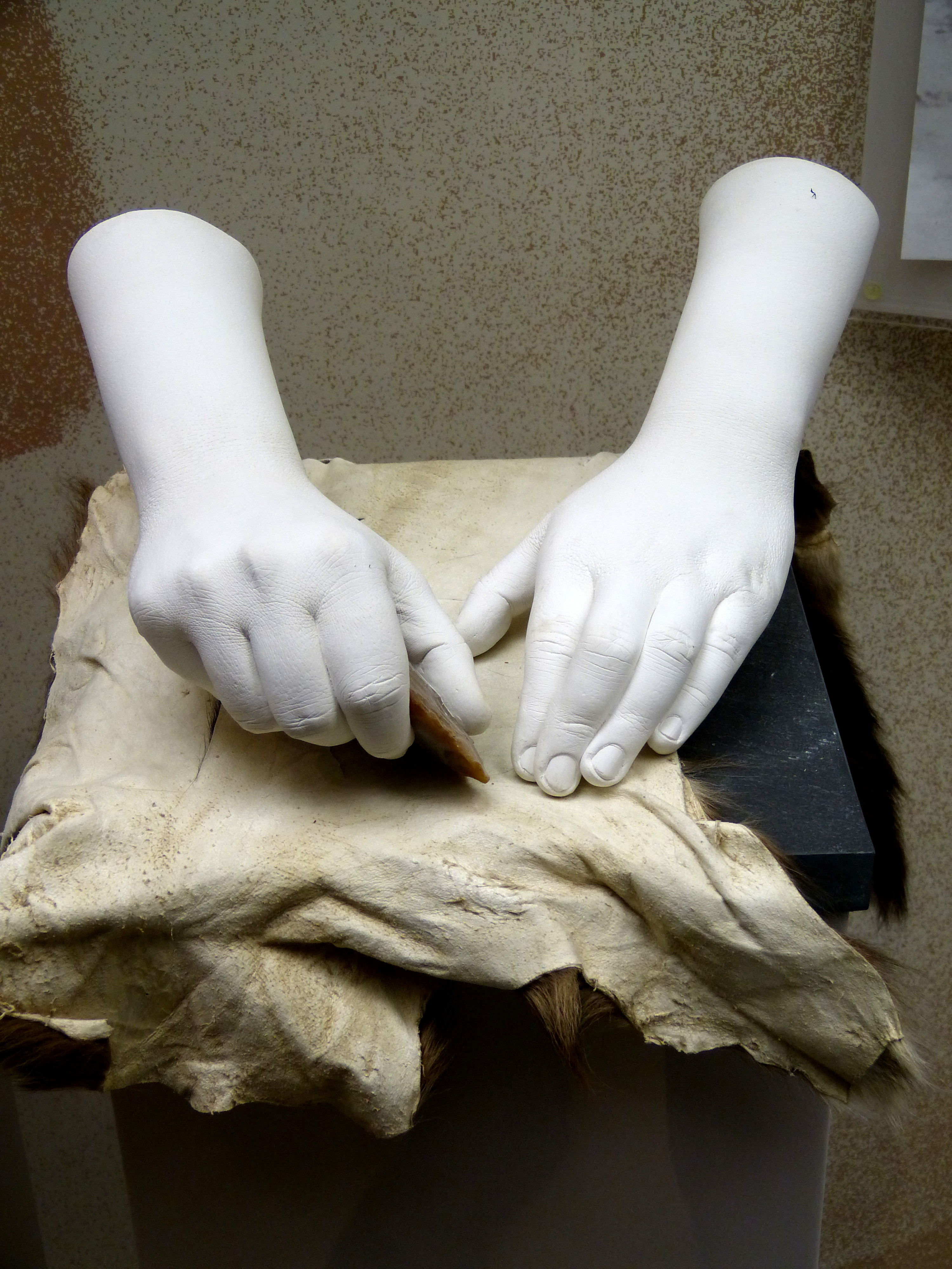 Weimar ( Thuringia ). Museum for Prehistory in Thuringia: Paleolithic technique of scraping.